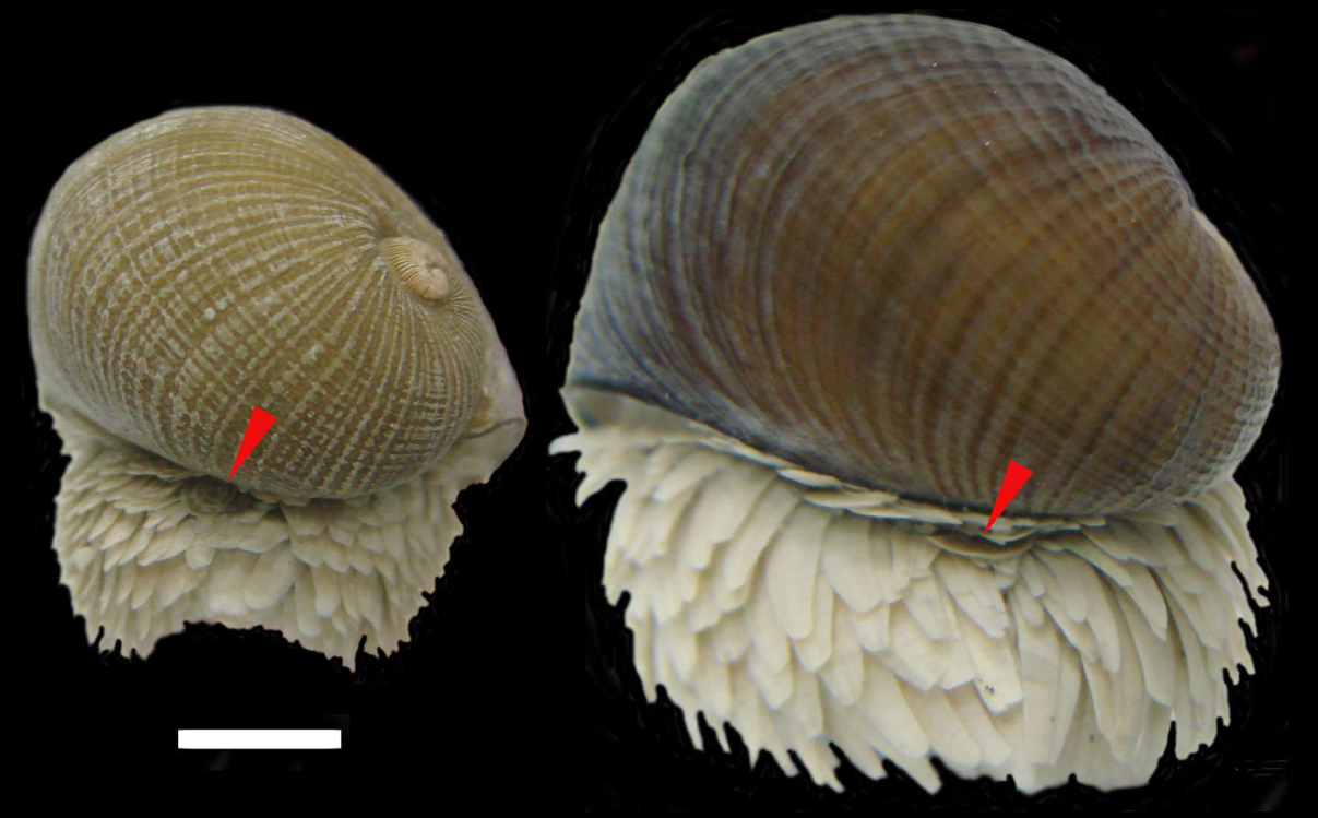 Photo of opercula of adult Chrysomallon squamiferum indicated by red arrowheads. The scale bar is 5 mm.